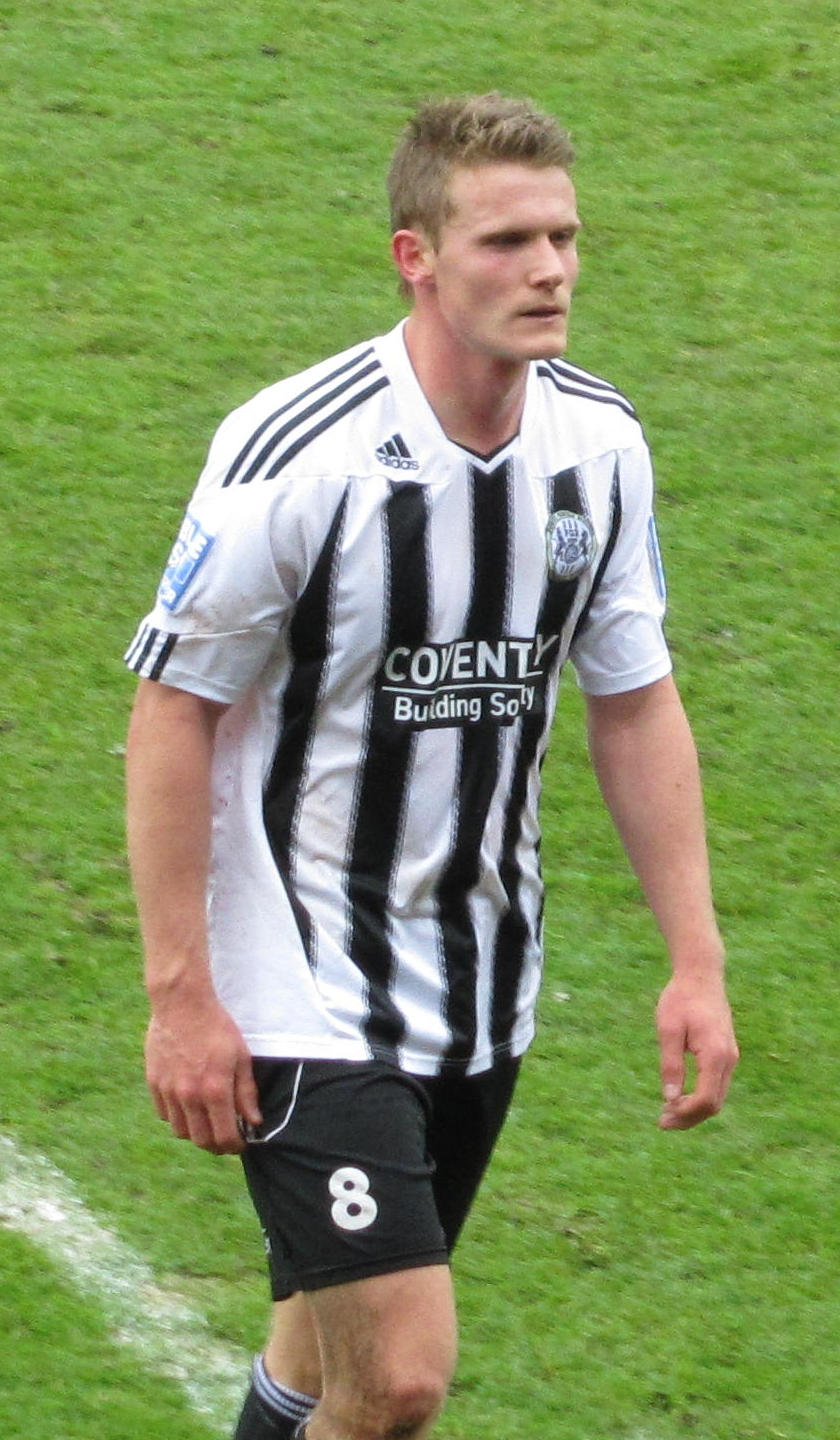 Yan Klukowski playing for Forest Green Rovers against York City at Bootham Crescent, York on 28 April 2012